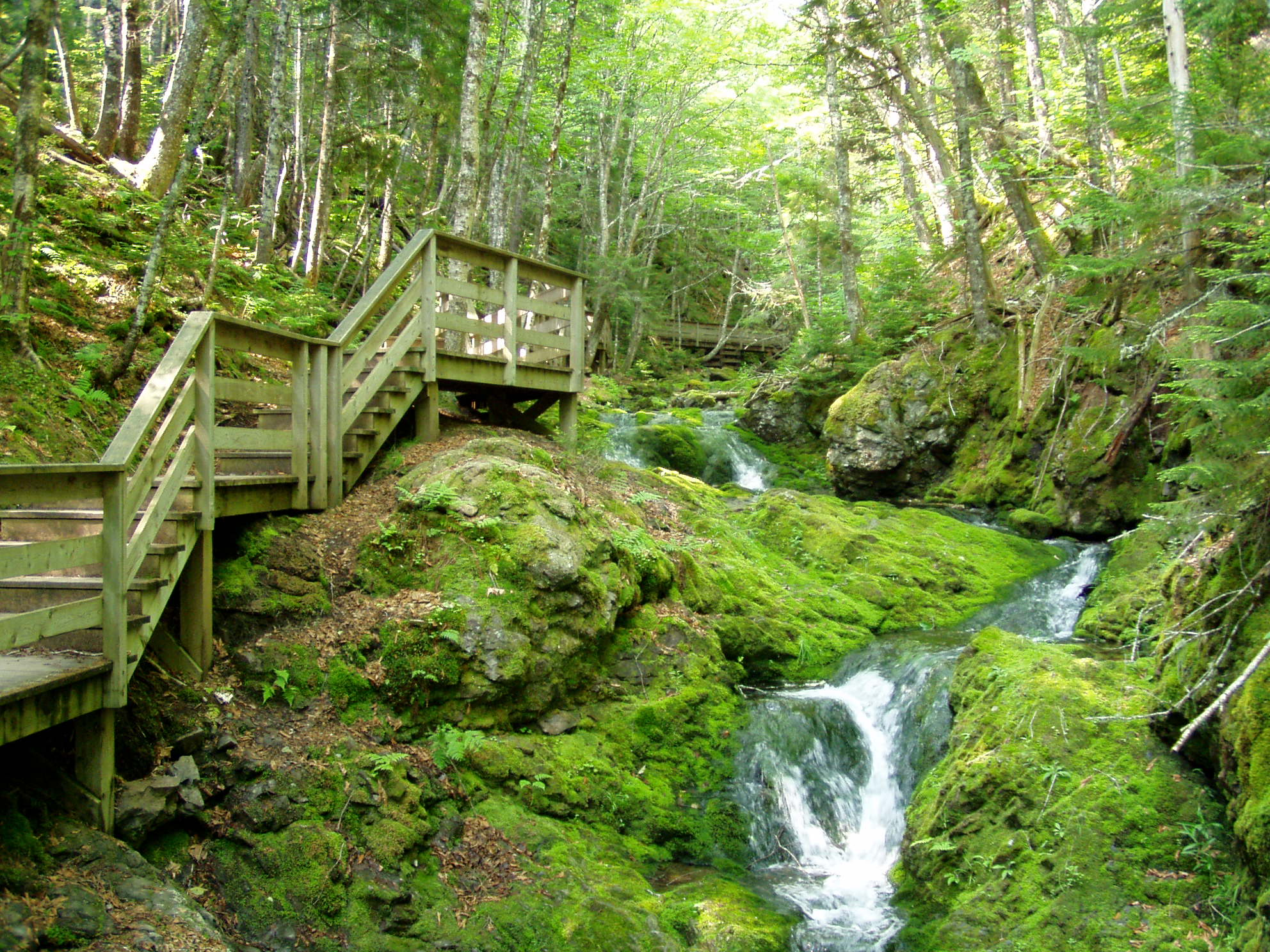 Dickson Falls hiking trail. Fundy National Park of Canada, New Brunswick. Photo taken in July 2004 by myself, Danielle Langlois.